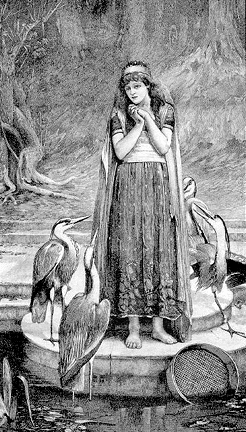 Freya with herons. Artist: Sander J. Nystrøm, 1893.